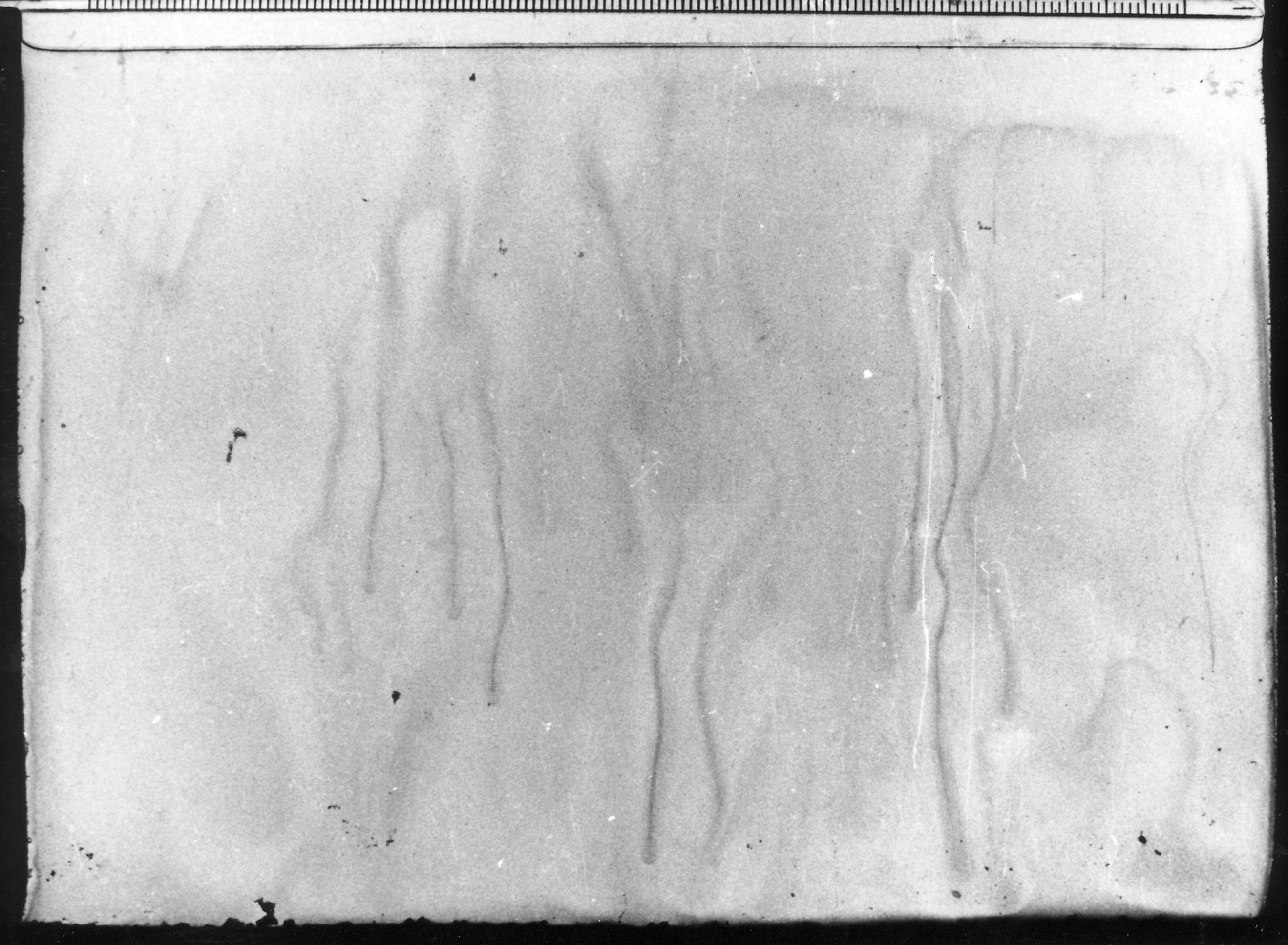 Bioconvection of Euglena gracilis in a flat vessel, gyrotaxis, b/w